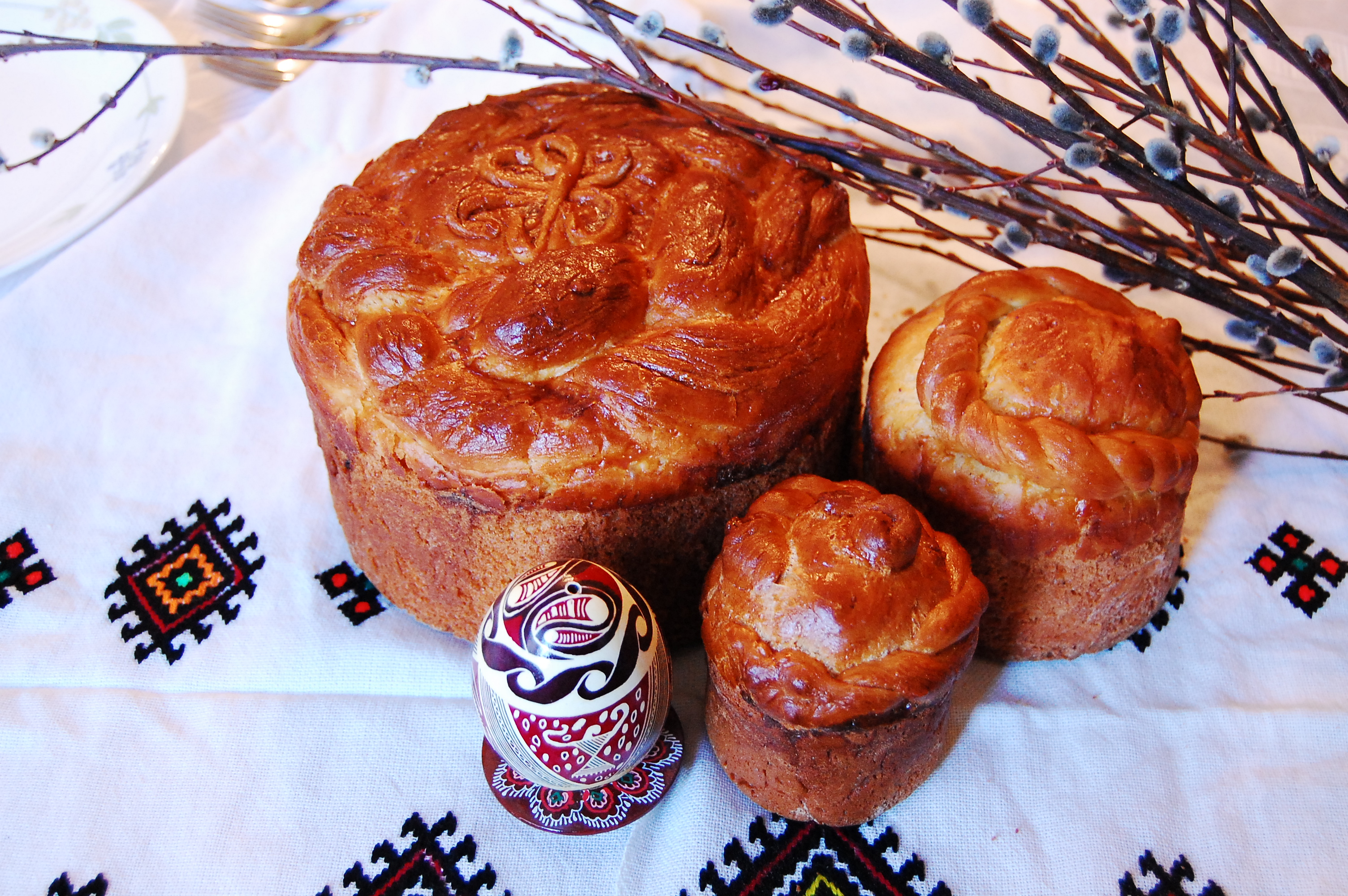 Traditional Ukrainian Paska with a Trypillian pysanka and willow branches